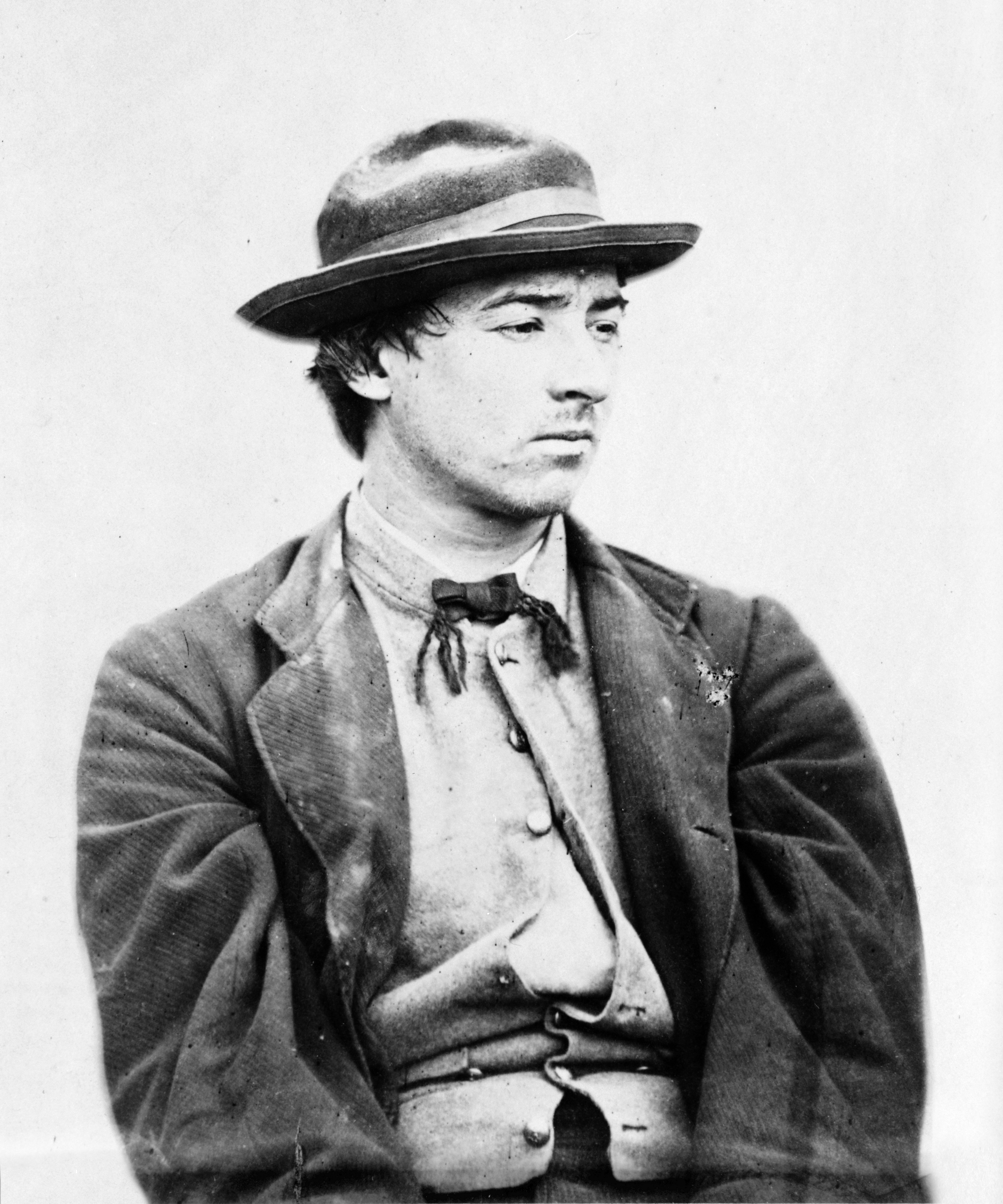 David Edgar Herold at the Washington Navy Yard after his arrest, 1865. Half-length portrait, facing right.